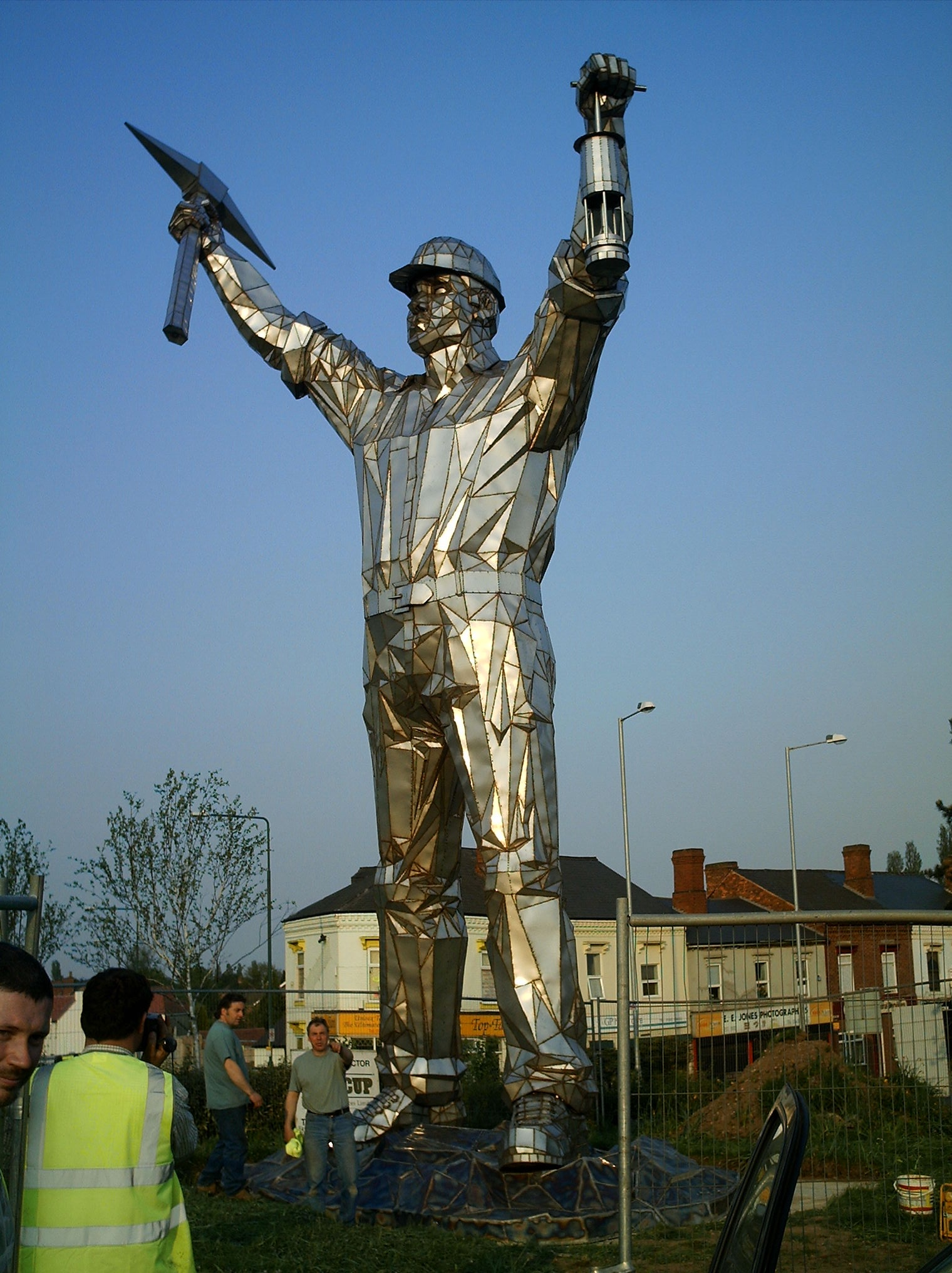 This stainless steel sculpture created by the John McKenna Sculpture studio, stands 46 feet high or approximately 13 metres. Commissioned by the Walsall MBC for the town of Brownhills, Staffordshire.